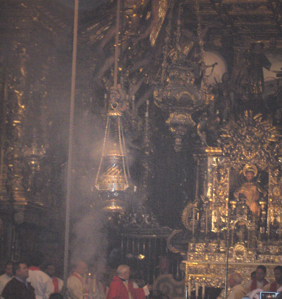 Botafumeiro (giant censer) in the cathedral of Santiago de Compostela, Spain